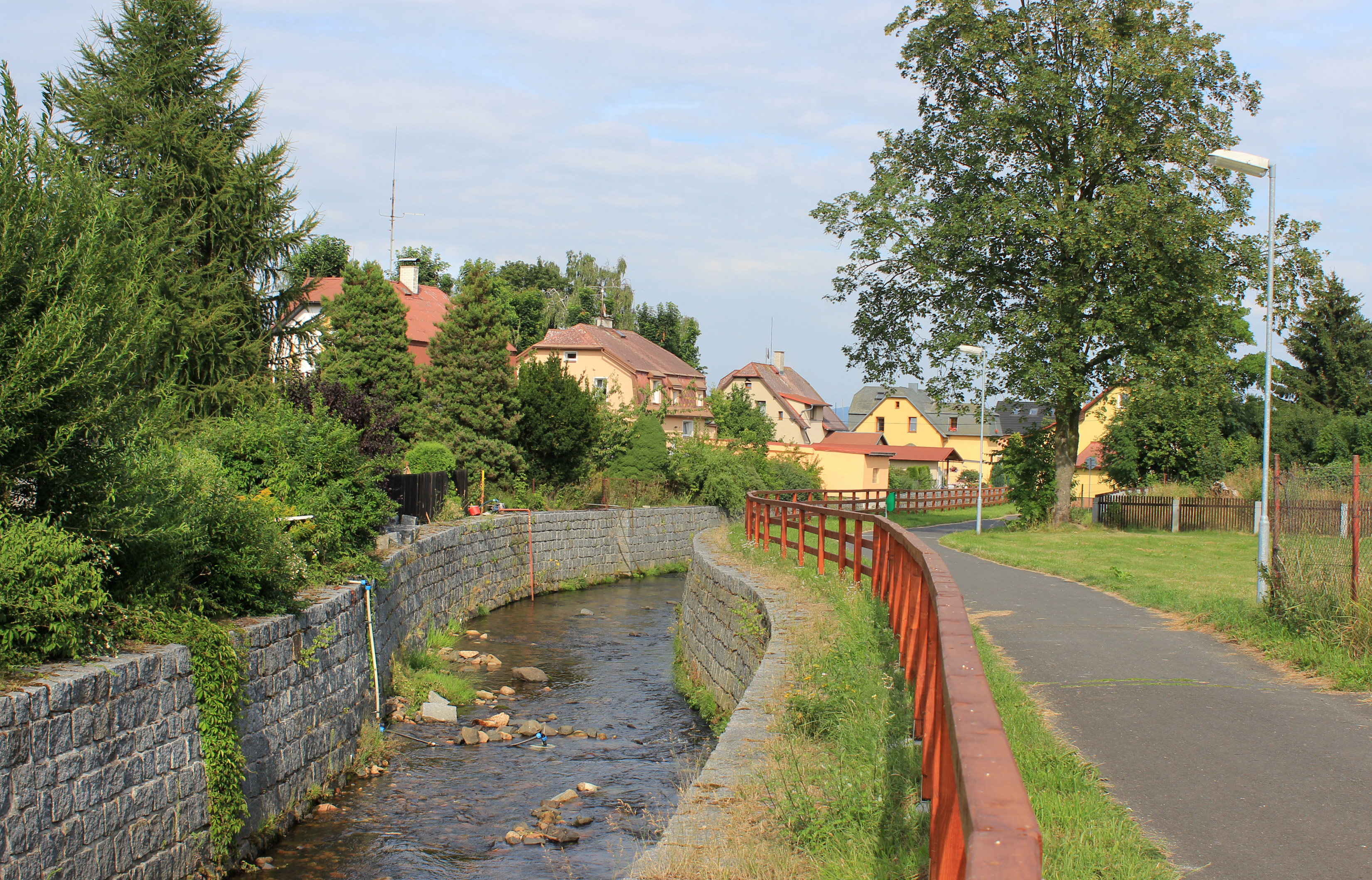 Bystřice river in Hroznětín, Czech Republic.